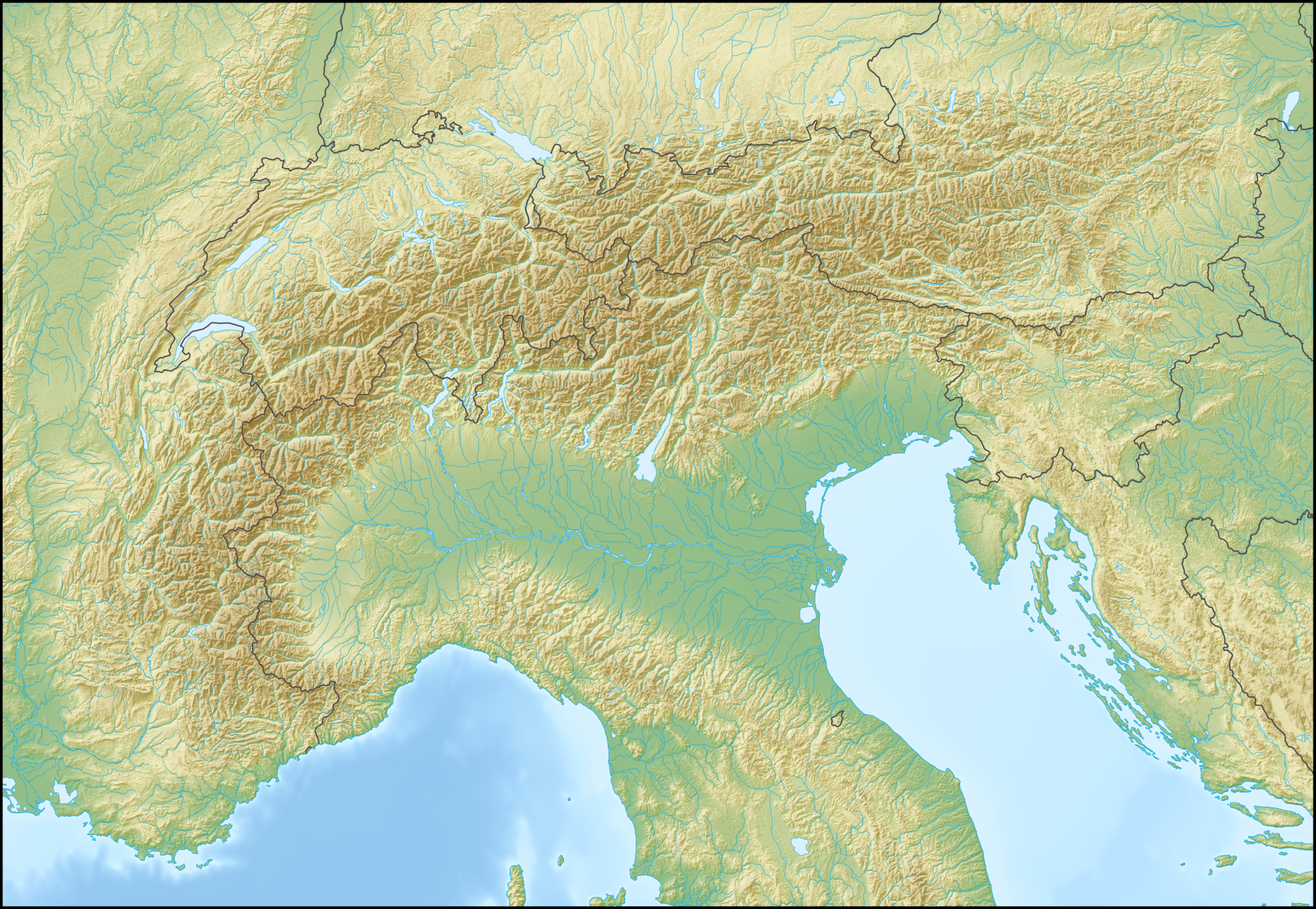 Location map of the Alps Equirectangular projection, N/S stretching 150 %. Geographic limits of the map: N: 48.5° N S: 42.75° N W: 4.5° E E: 17° E